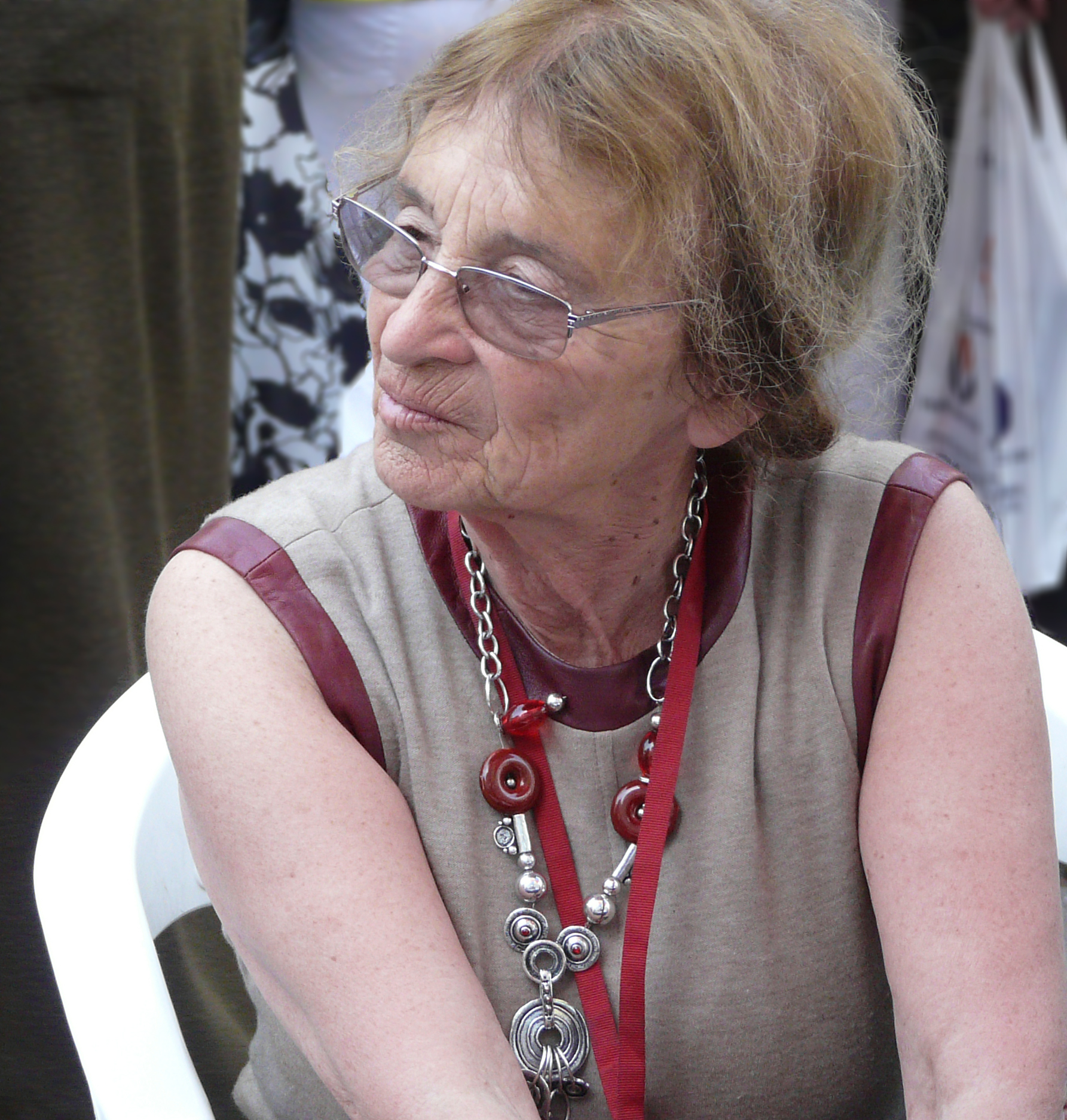 Ágnes Heller, a Hungarian philosopher. Juin 2010.